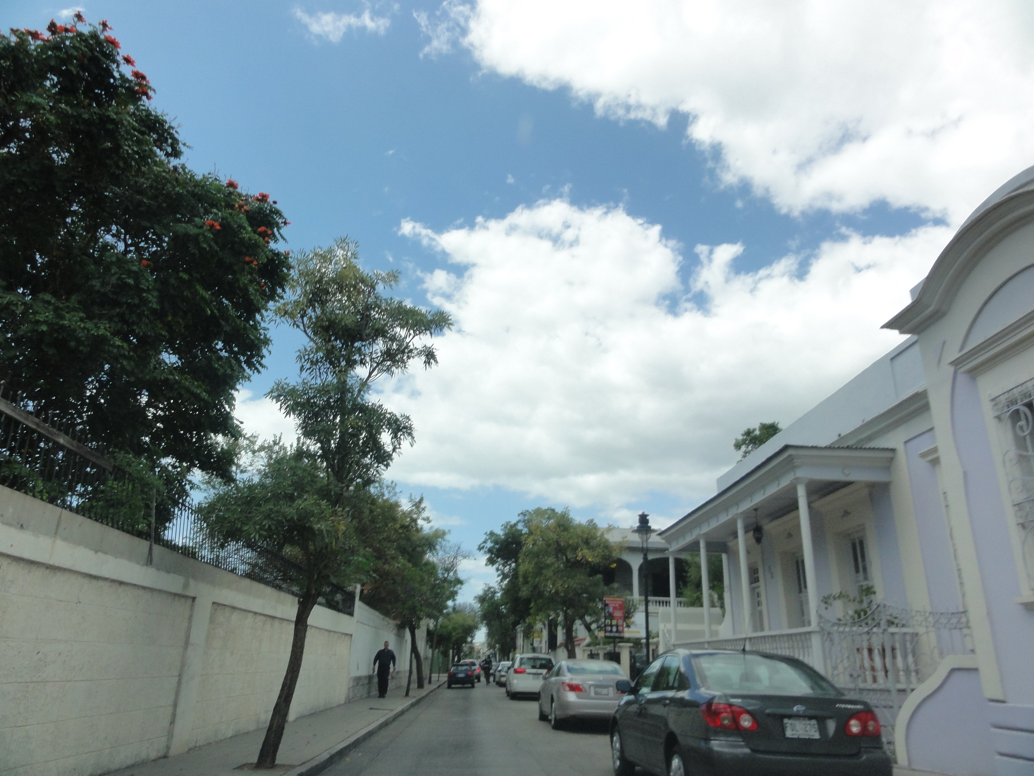 Calle tipica (Se muestra la Calle Isabel) en el Barrio Tercero, Ponce, Puerto Rico